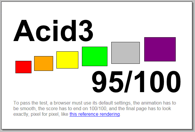 Acid 3 test on IE9 DP4 1.9.7916.6000